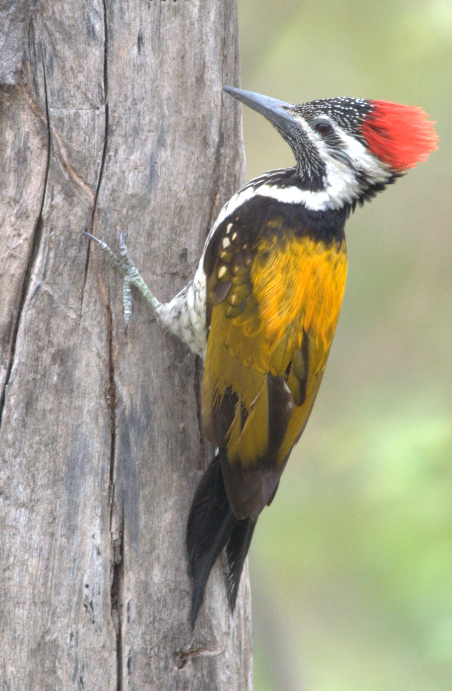 lesser golden back woodpecker